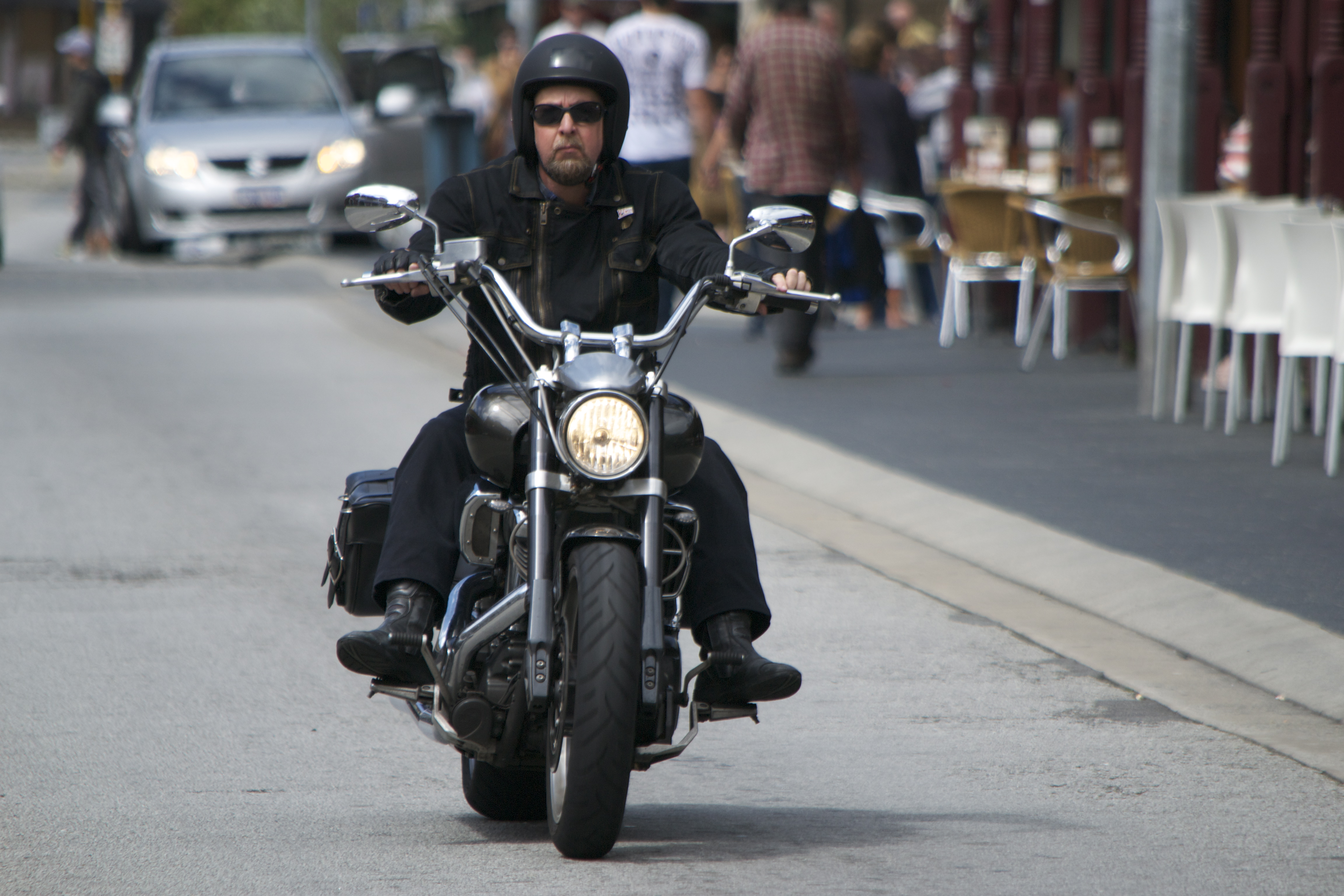 Roaring down South Terrace